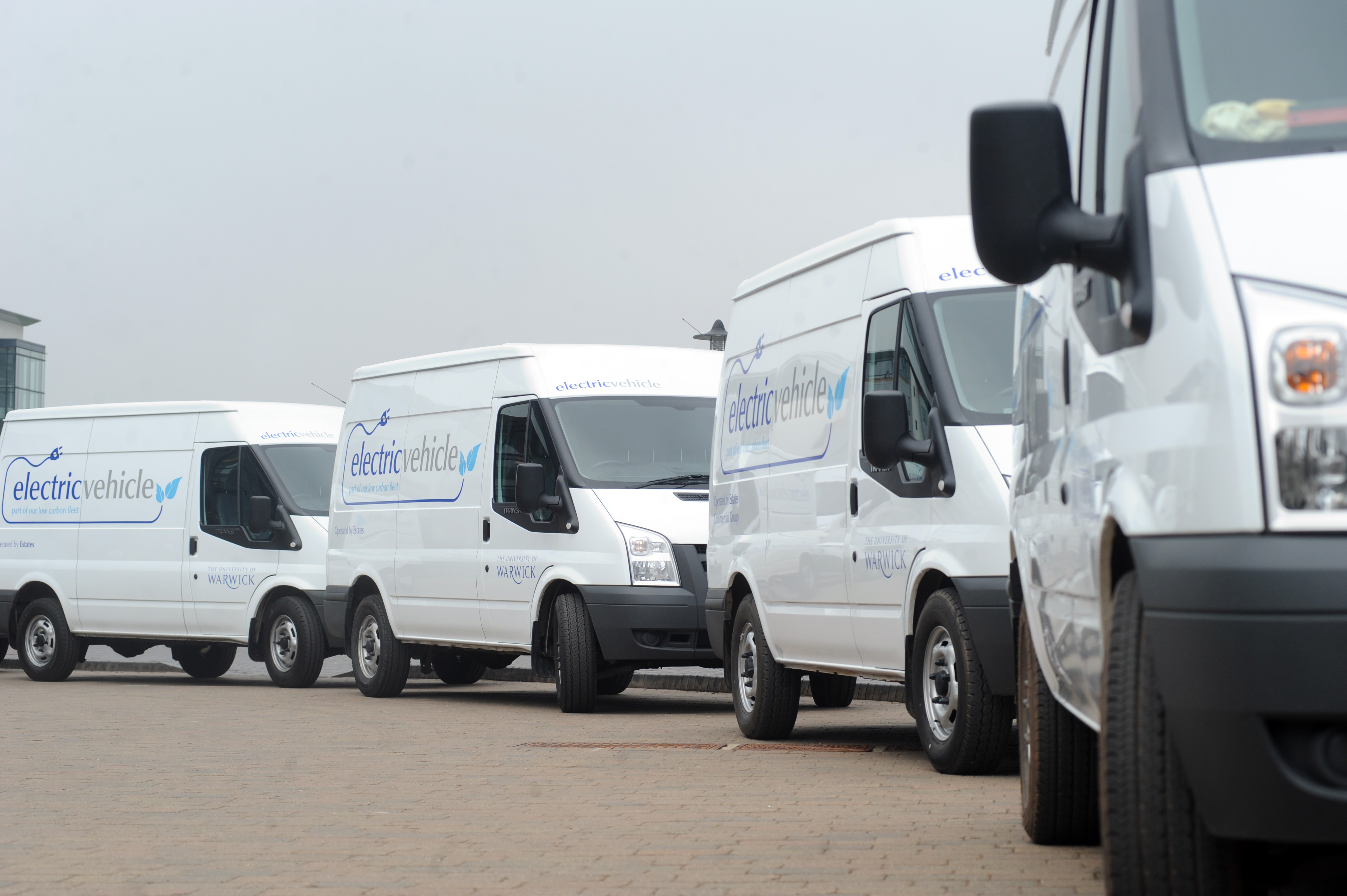 Smith Edison electric vans owned by the University of Warwick parked on the University campus